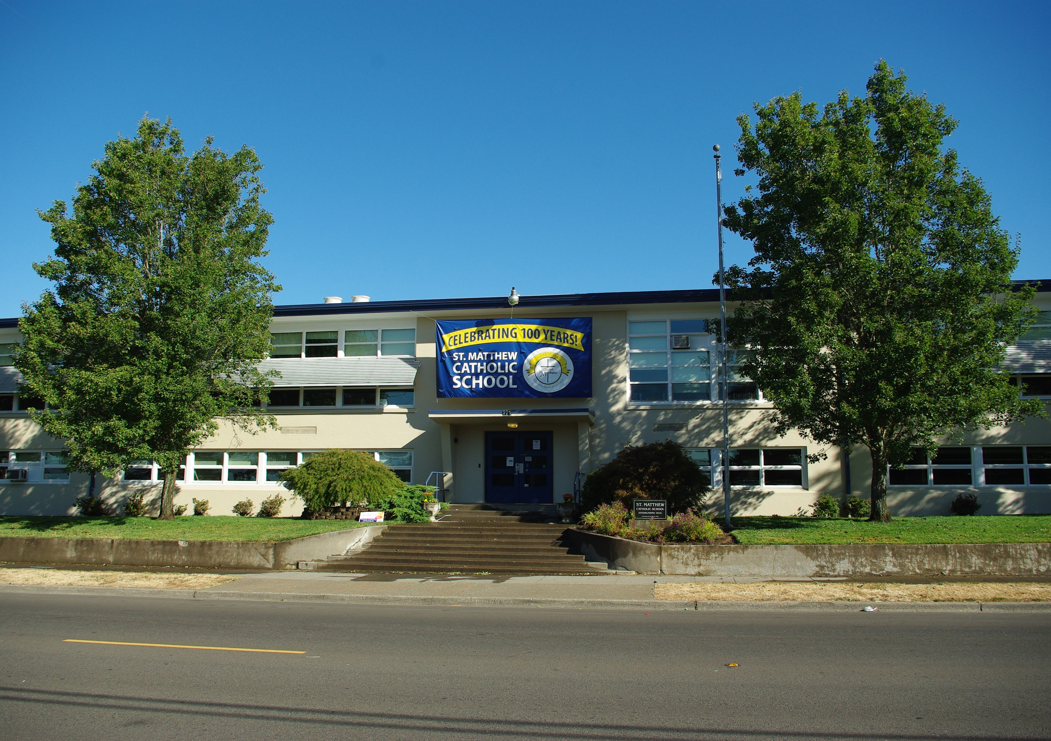 St Matthew's in Hillsboro, Oregon.